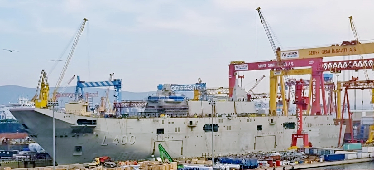 TCG Anadolu (L-400) amphibious assault ship (LHD) of the Turkish Navy during its construction at Sedef Shipyard in Istanbul.